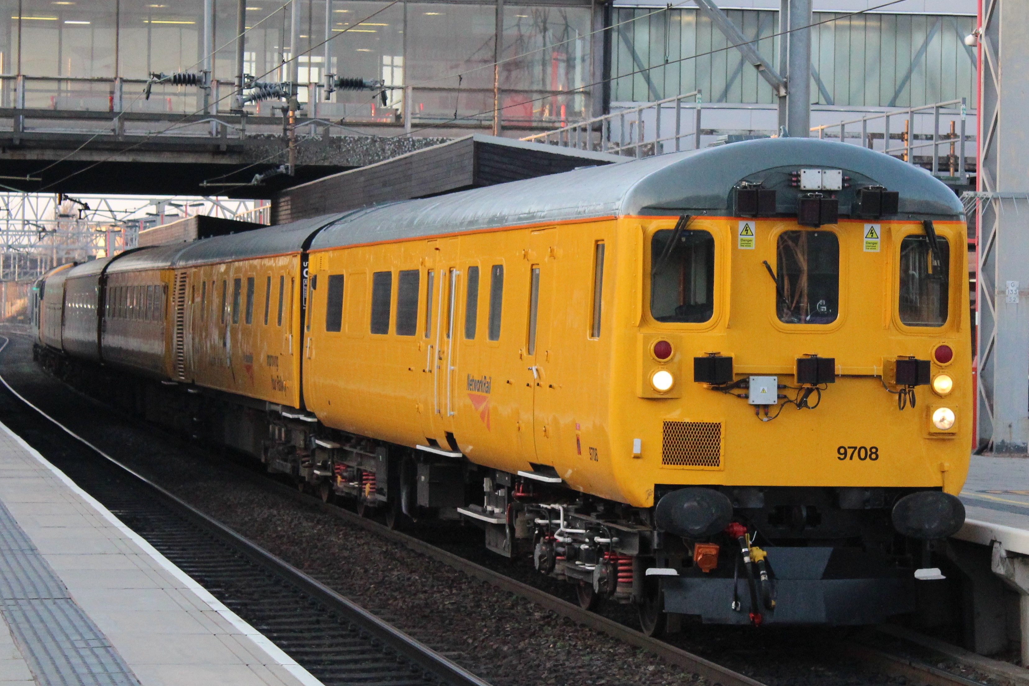 Seen on a test train on the 18th November 2018